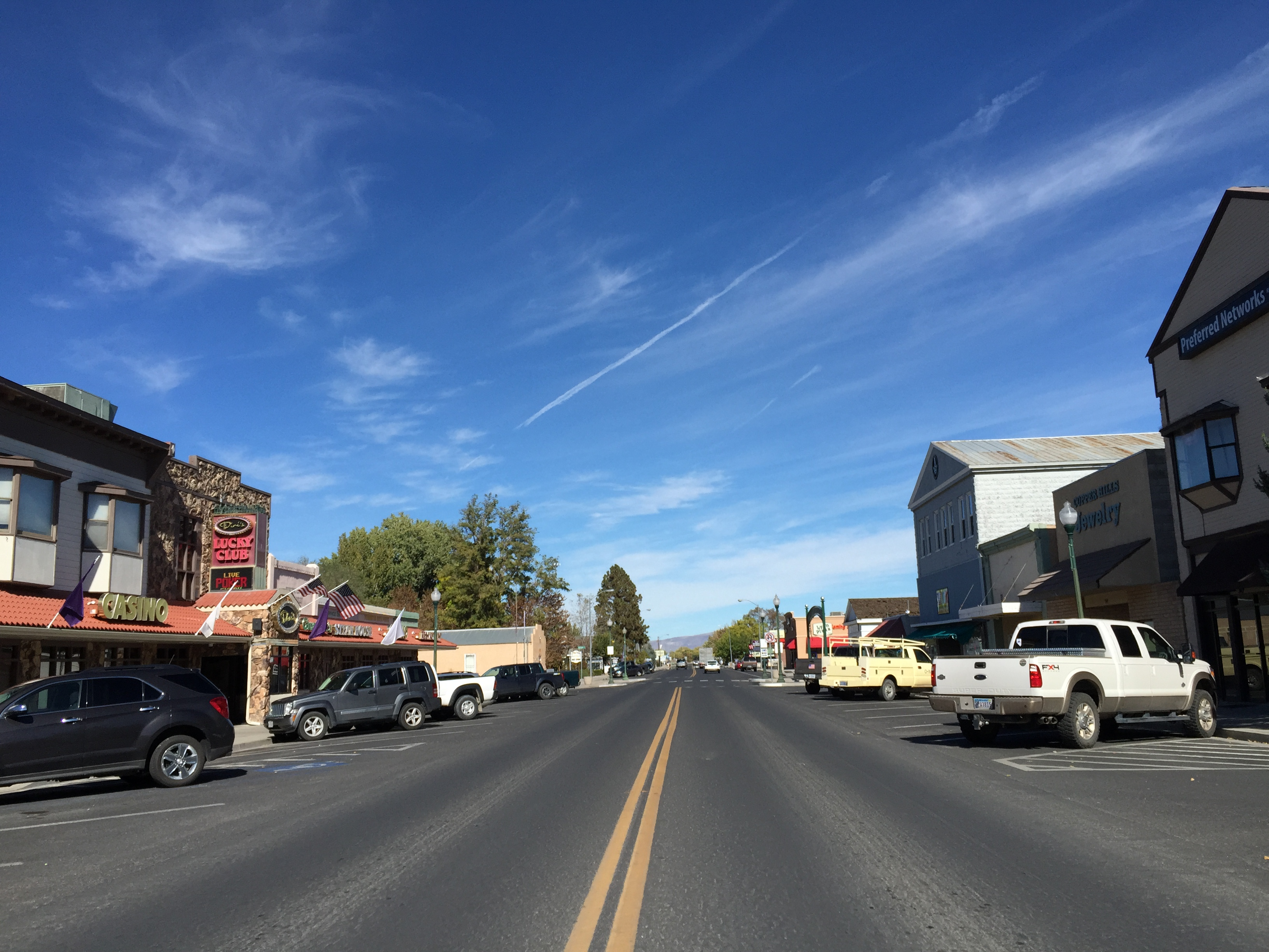 View north along Main Street (Nevada State Route 208) near Littell Street in downtown Yerington, Nevada